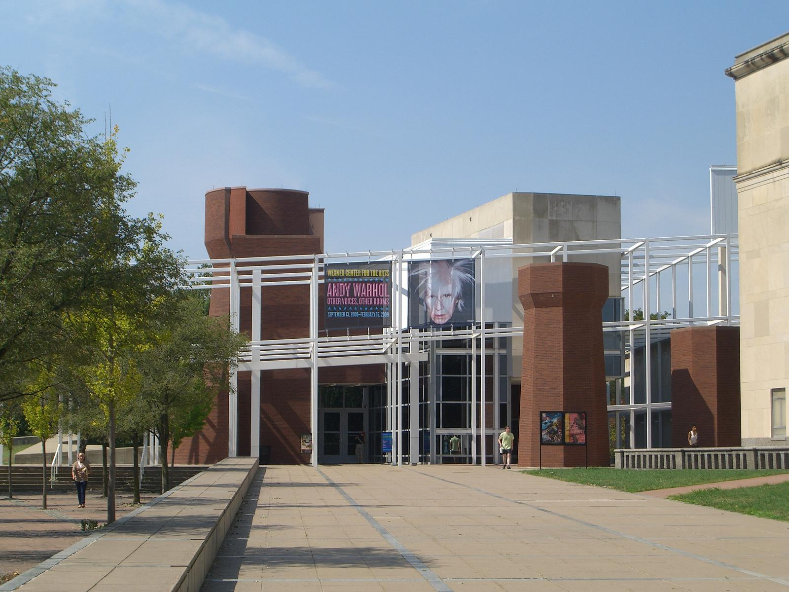 Wexner Center for the Arts, Ohio State University, designed by Peter Eisenman